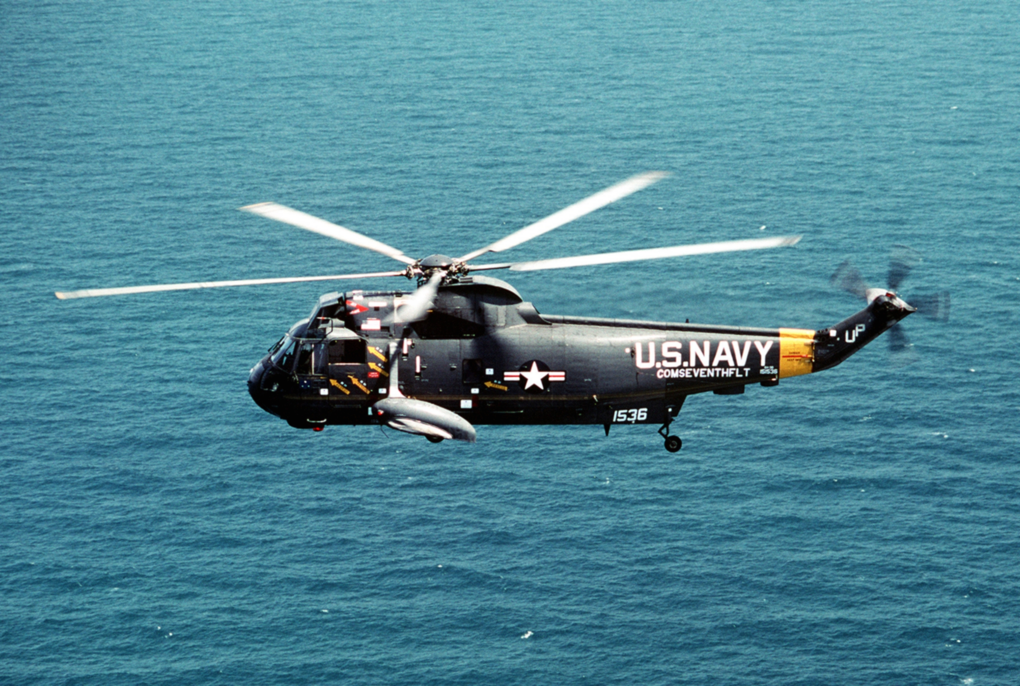 A U.S. Navy Sikorsky SH-3G Sea King (BuNo 151536) assigned to Helicopter Combat Support Squadron HC-1 in flight over the Persian Gulf during operation "Desert Shield", in 1990. This helicopter was assigned to Vice Admiral Henry H. Mauz Jr., commander, 7th Fleet, U.S. Pacific Fleet.